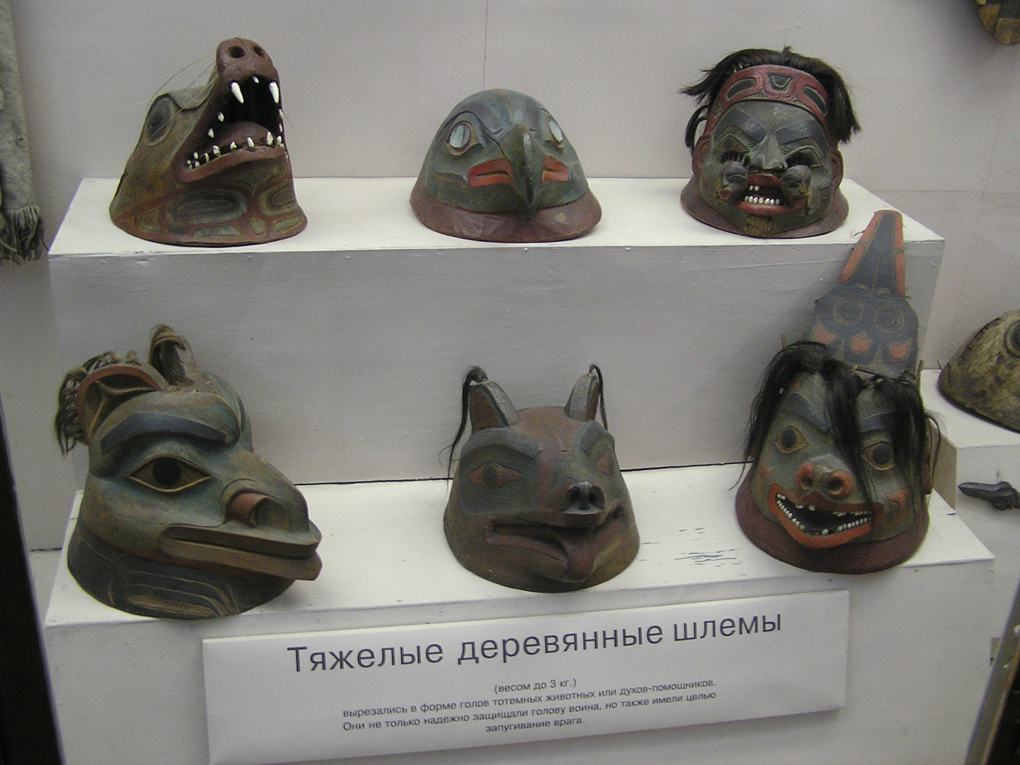 Tlingit carved wood helmets from Alaska. Peterburg, Russia